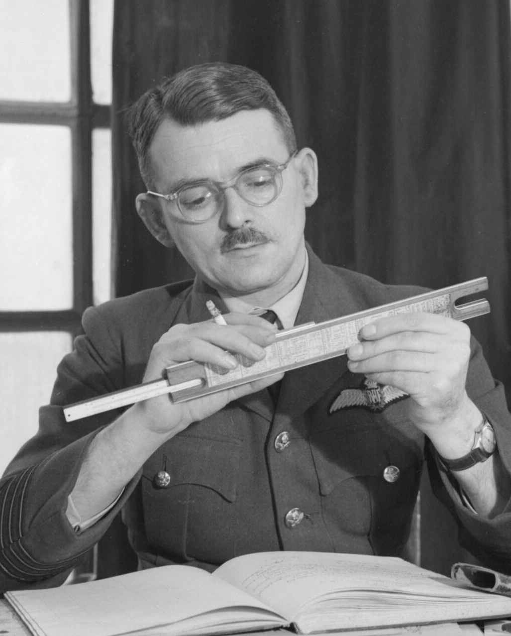 Frank Whittle adjusts a slide rule while seated at his desk at the Ministry of Aircraft Production.